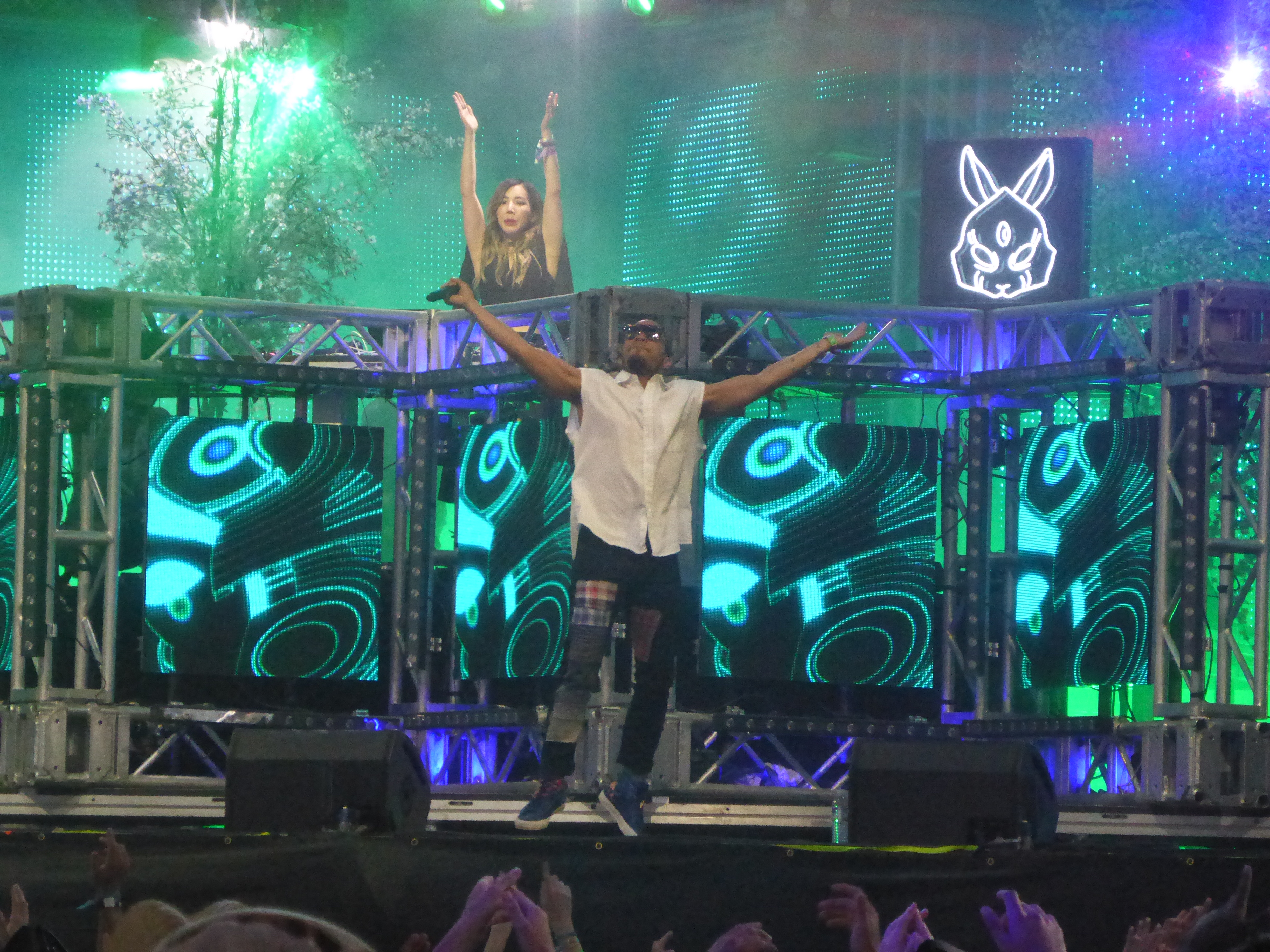 Tokimonsta and Anderson .Paak performing at the Coachella Valley Music and Arts Festival on April 17, 2016 in Indio, California.